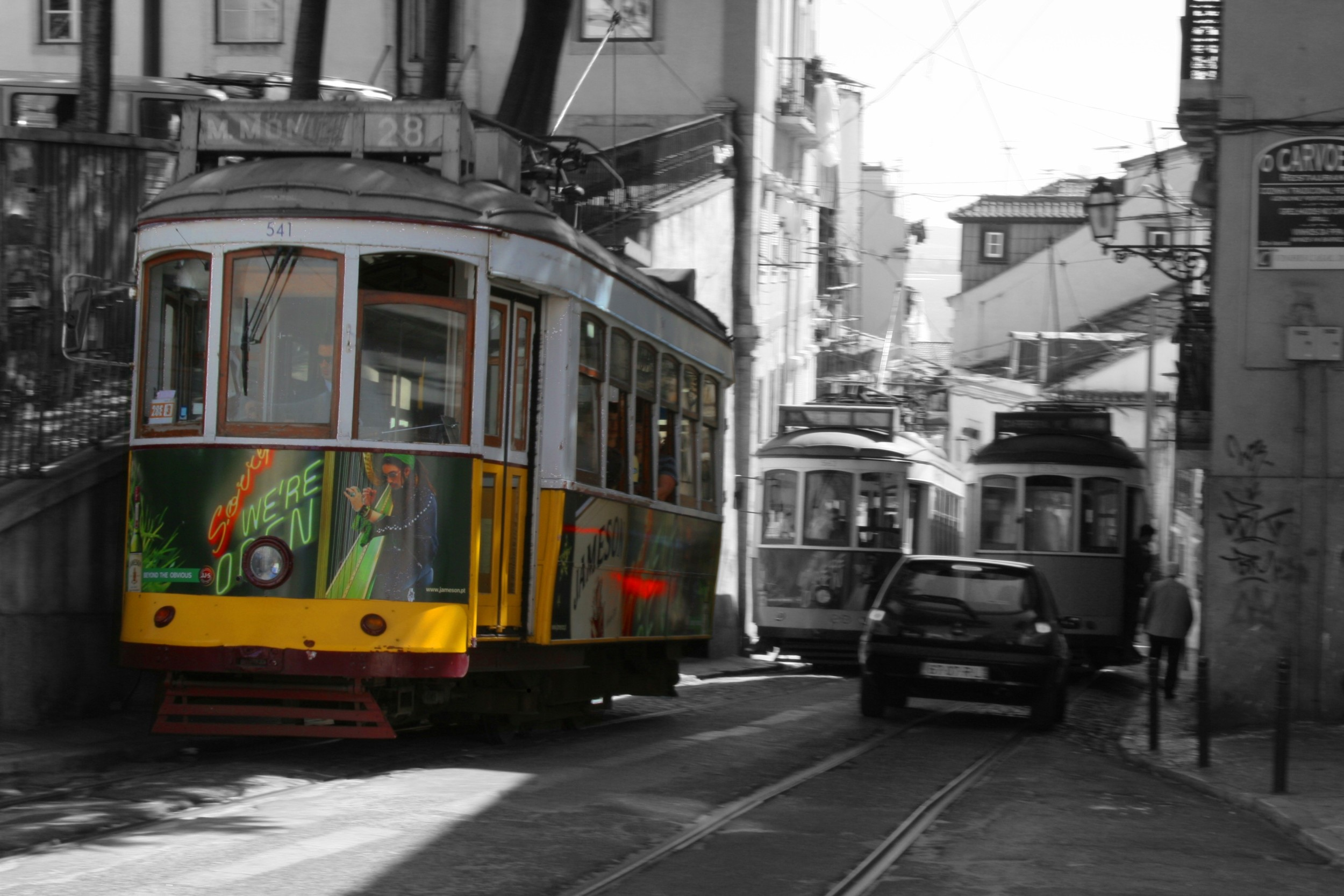 The tram line 28 of Lisbon, provides the best tour of this incredible town